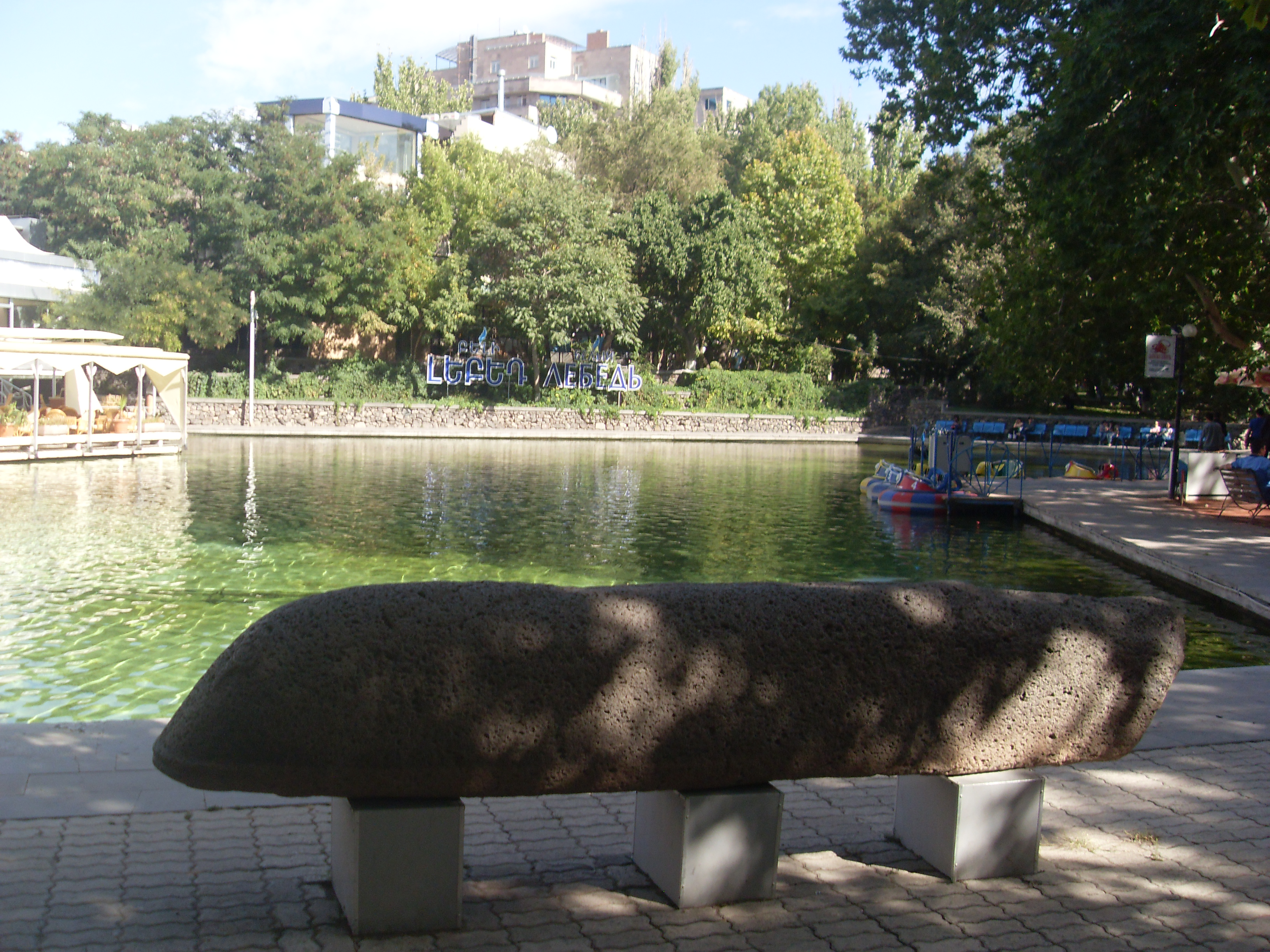 Vishapakar, BC 3-2 mill. 6/169